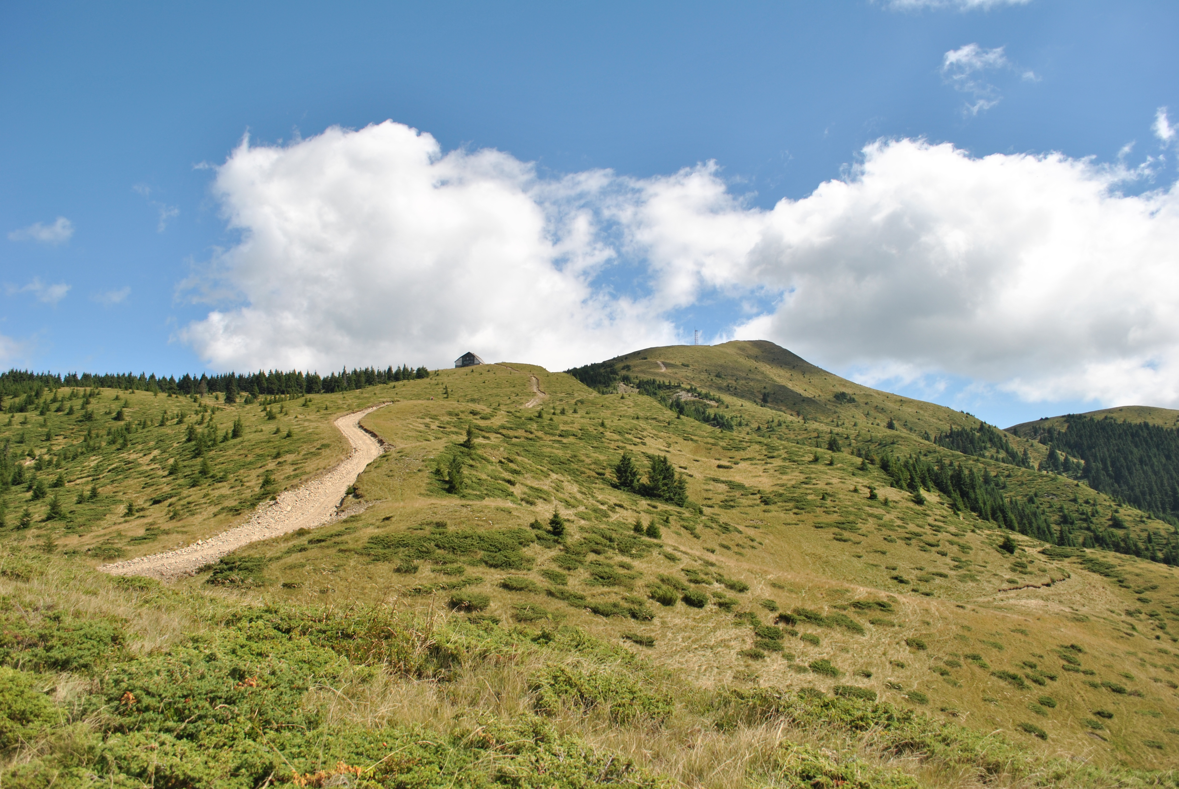 A photo taken on the Penteleu peak